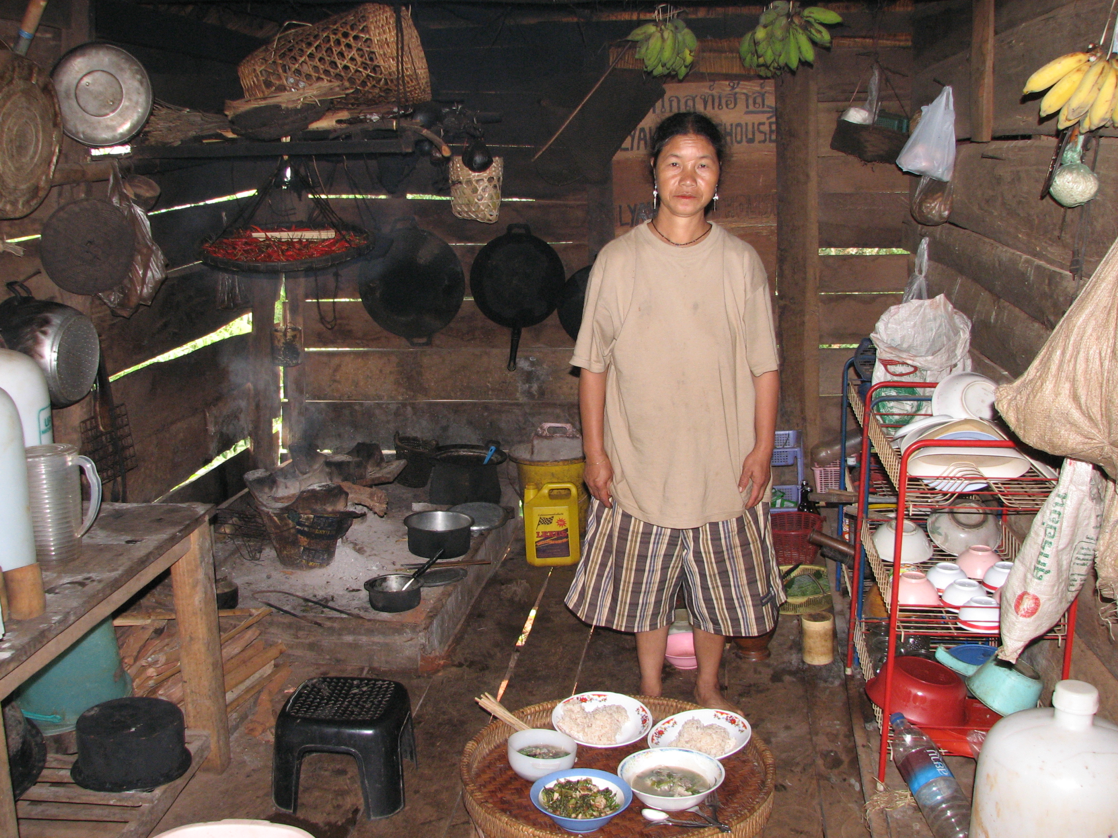 An Akha women standing in her kitchen.